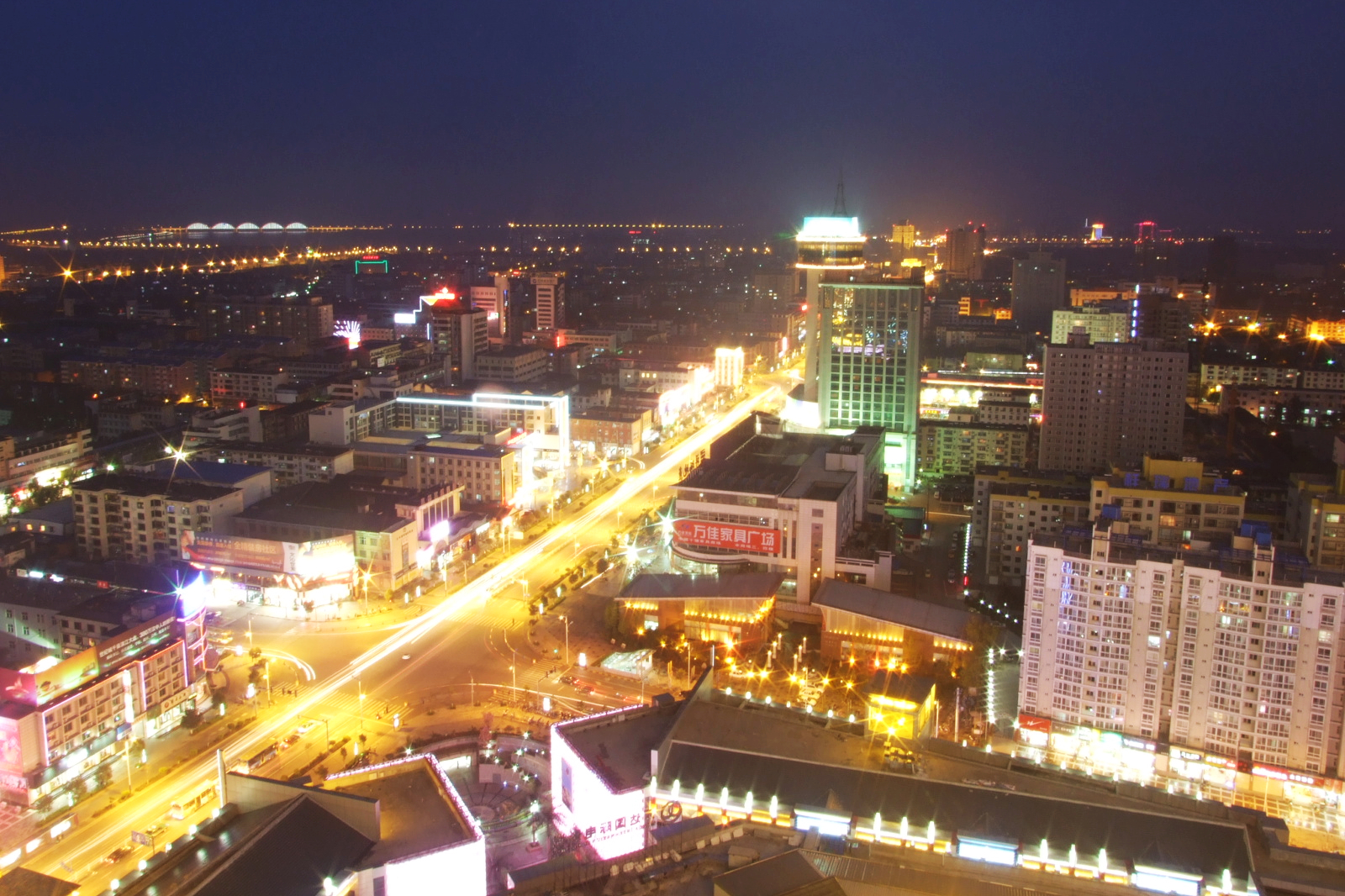 Southeast of hanzhong at night.